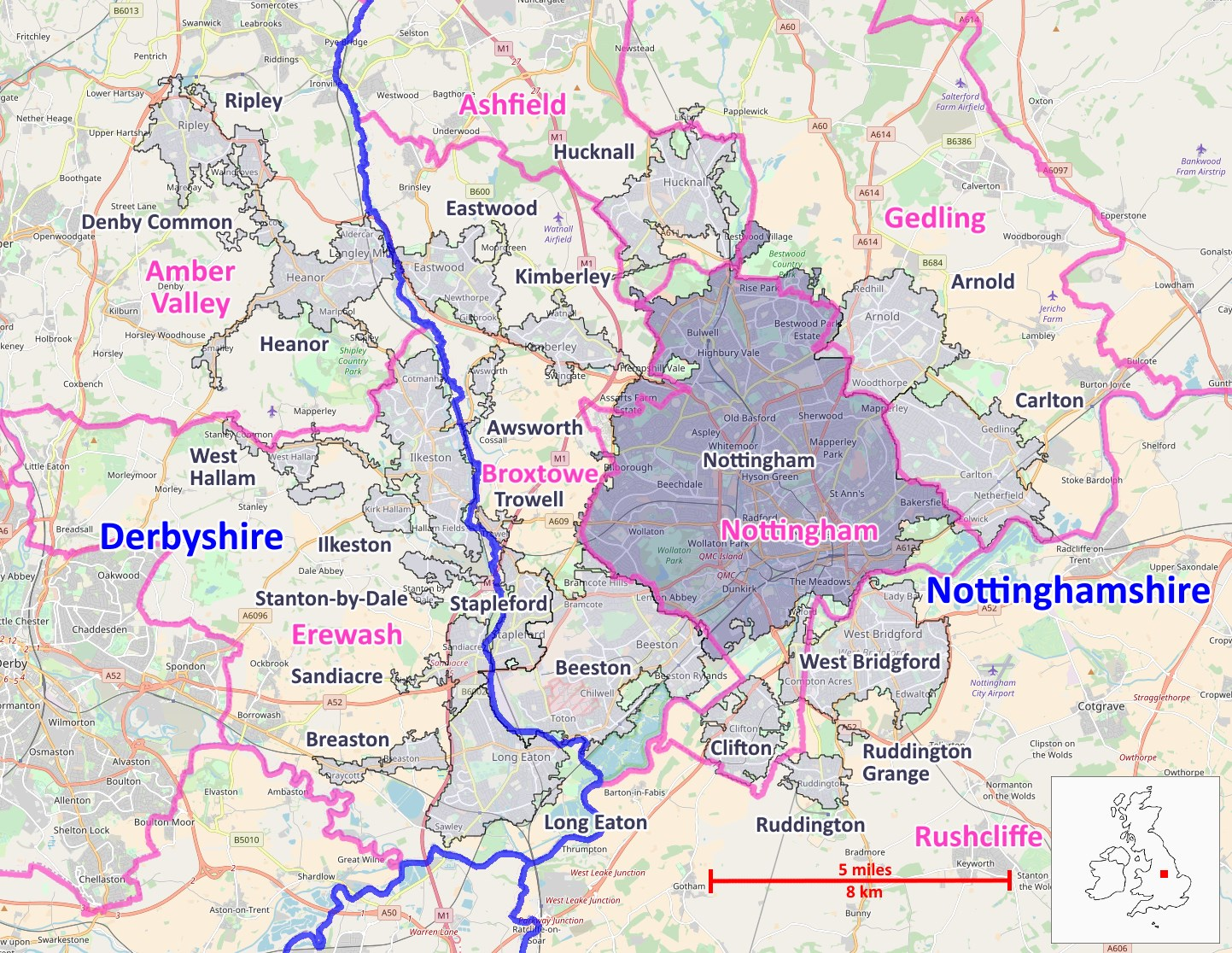 Map of the ONS definition of the Nottingham built-up area in 2011 (previously urban area) showing subdivisions